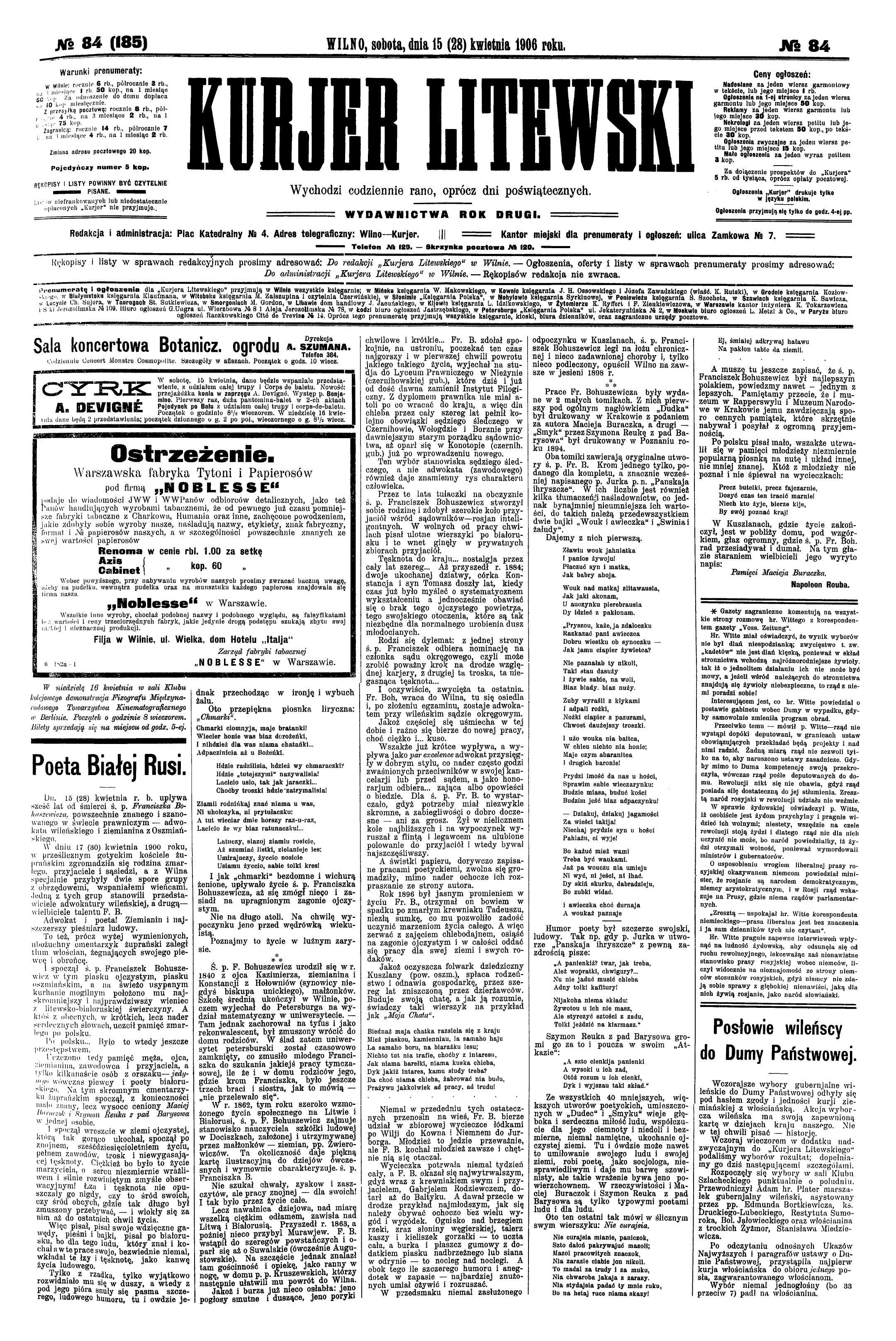 first page of newspaper "Kuryer Litewski" (#84, 1906 AD), Russian empire. Article about poet Franciszek Bohuszewicz (Francišak Bahuševič) (1840-1900)